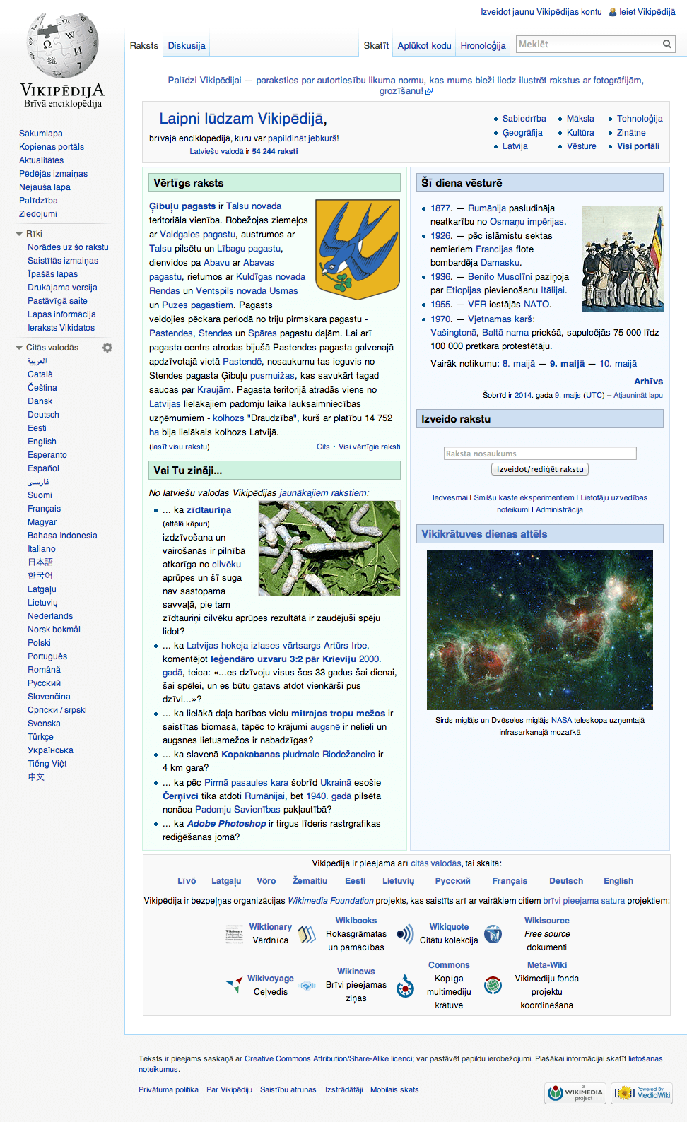 Main page of the Latvian Wikipedia on 2014-05-09